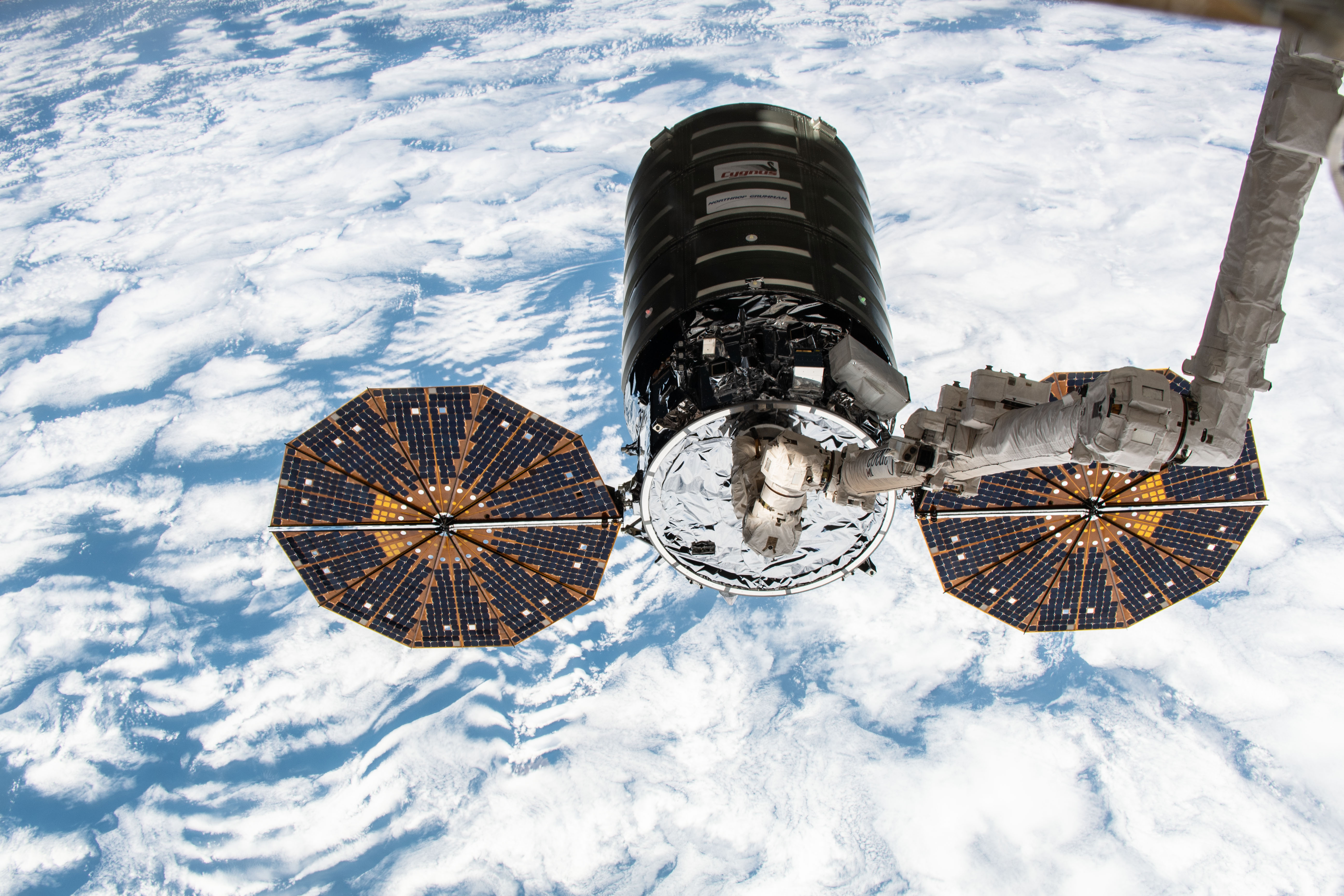 Northrop Grumman's Cygnus space freighter with its prominent cymbal-shaped UltraFlex solar arrays is pictured in the grips of the Canadarm2 robotic arm after it was captured by Expedition 57 Flight Engineer Serena Auñón-Chancellor and ESA (European Space Agency) astronaut Alexander Gerst.